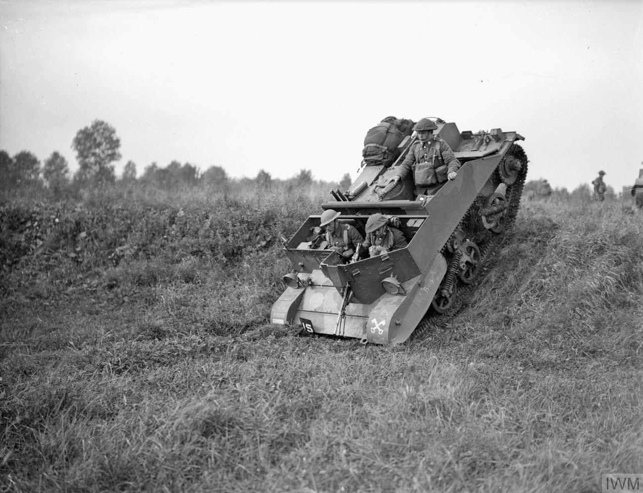 The British Army in France 1939-40 A Bren gun carrier of 13/18th Royal Hussars (Queen Mary's Own) on exercise near Arras, 16 October 1939.